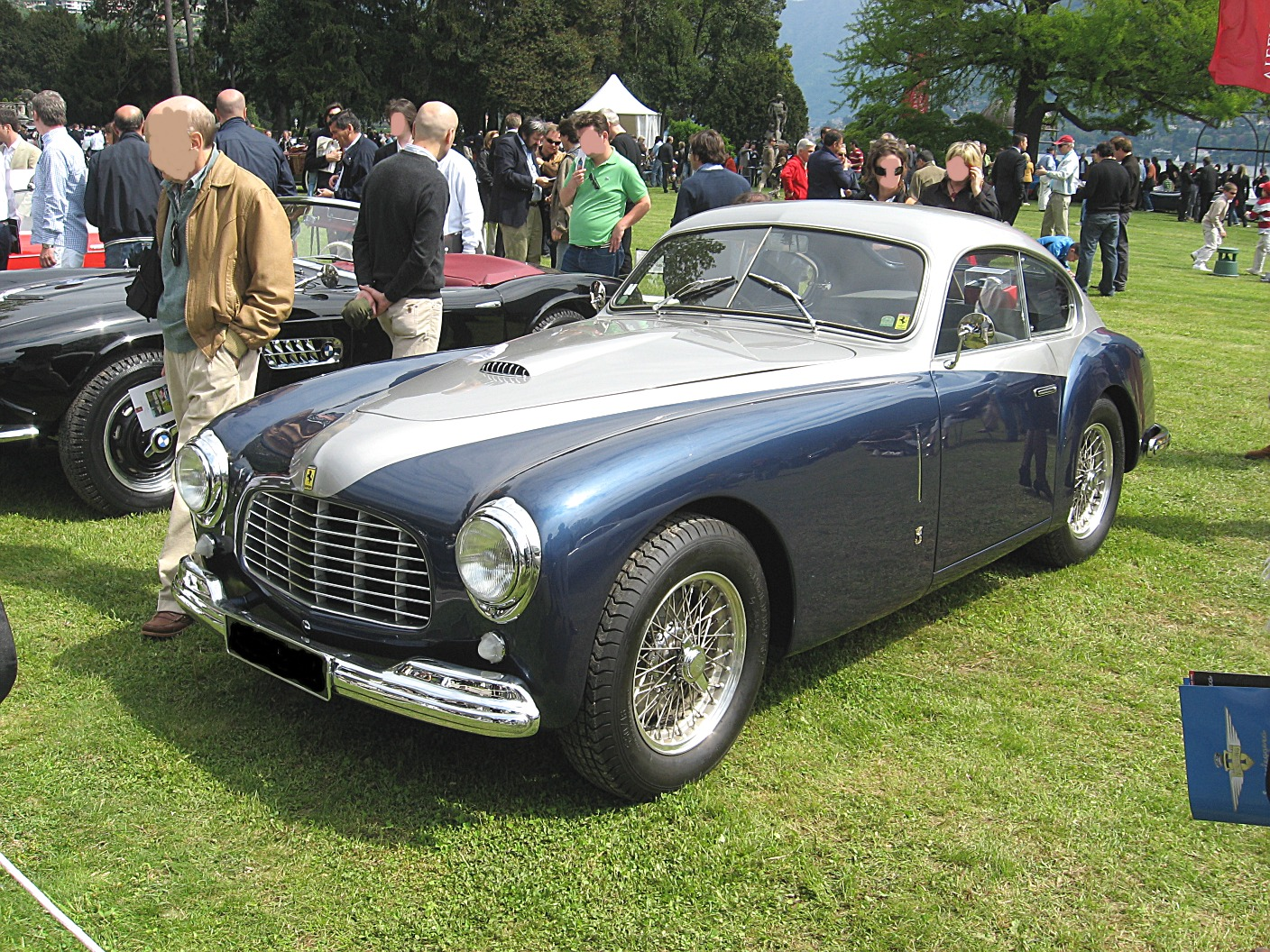 Subject:Ferrari 166 Inter Berlinetta